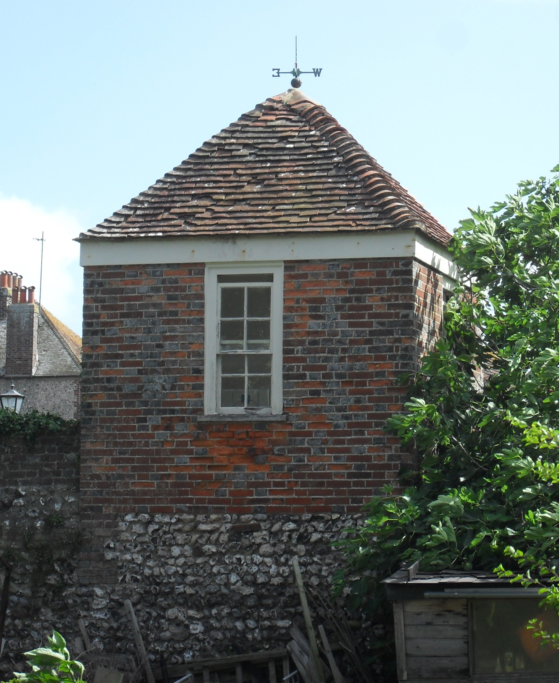 Gazebo at Hillside, The Green, Rottingdean, Brighton, City of Brighton and Hove, East Sussex. A brick structure built into the garden wall of this large old house in Rottingdean village centre; built in about 1822. Listed at Grade II by English Heritage (IoE Code 481354)